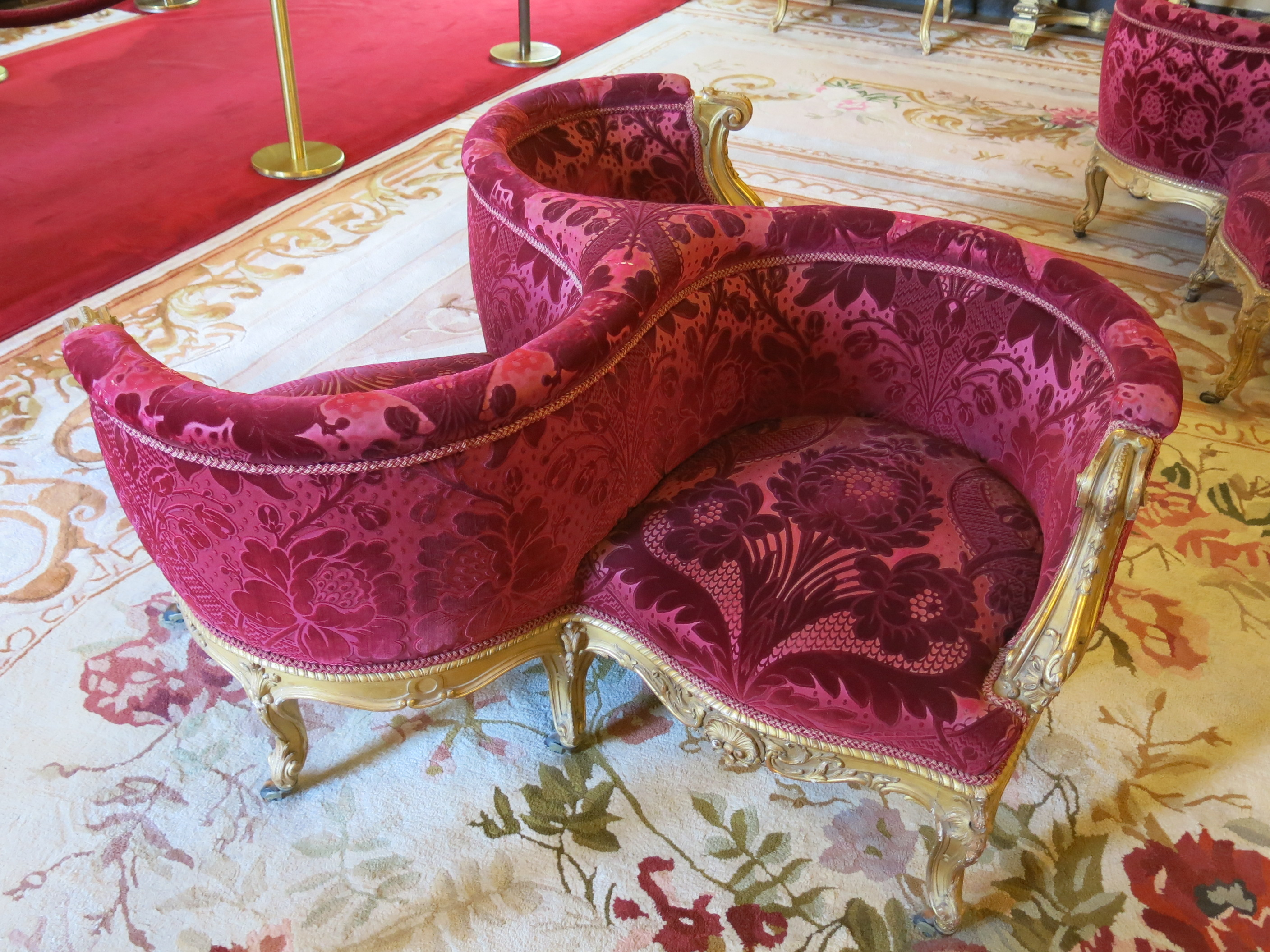 Furniture of indiscret type. In the Grand Salon of the Napoleon 3rd appartments. Louvre museum (Paris, France).